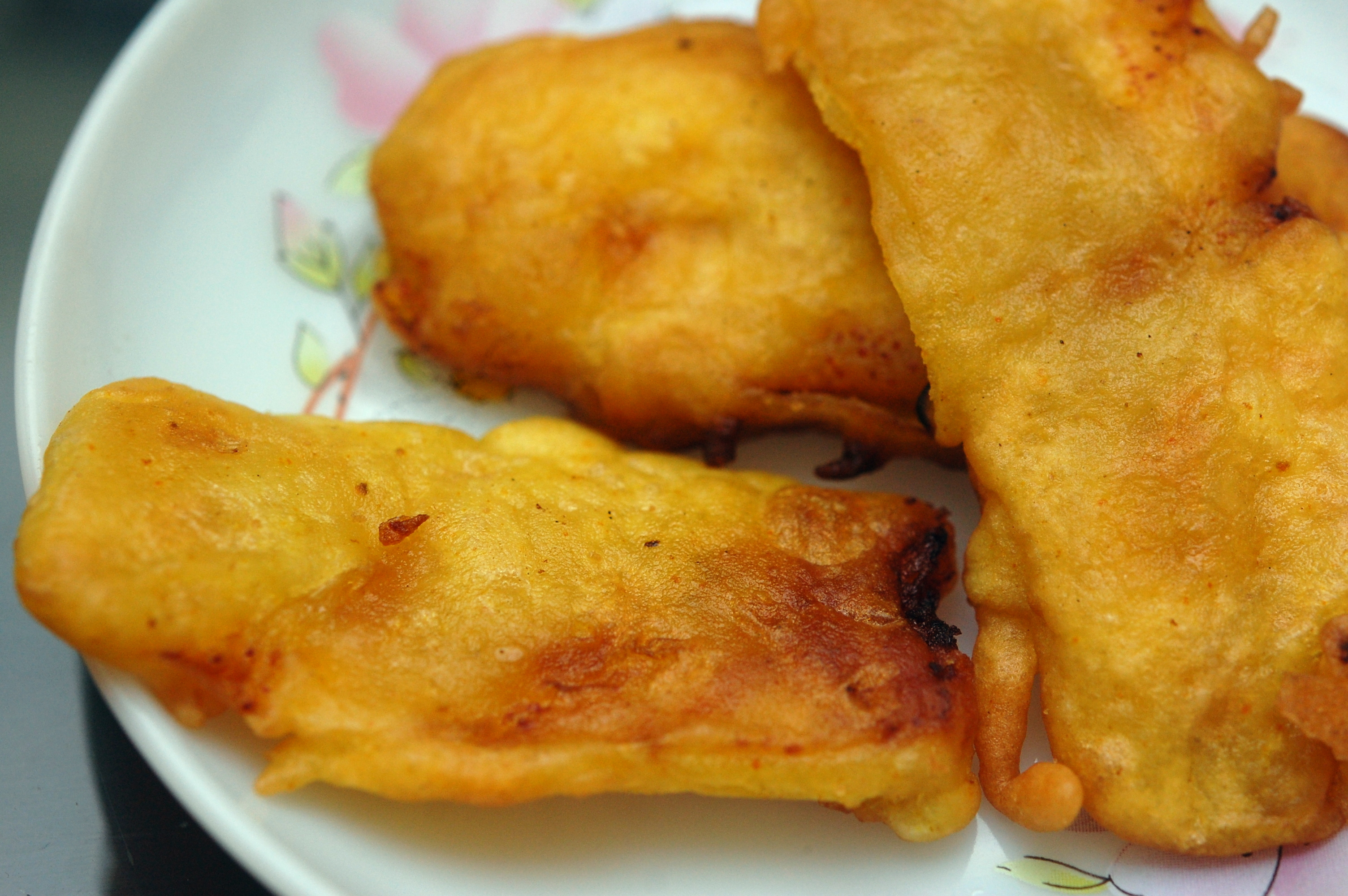 Pazhampori, a dish prepared mainly in Kerala. plantain slices are covered with a sweetened flour and then fried to make this dish.